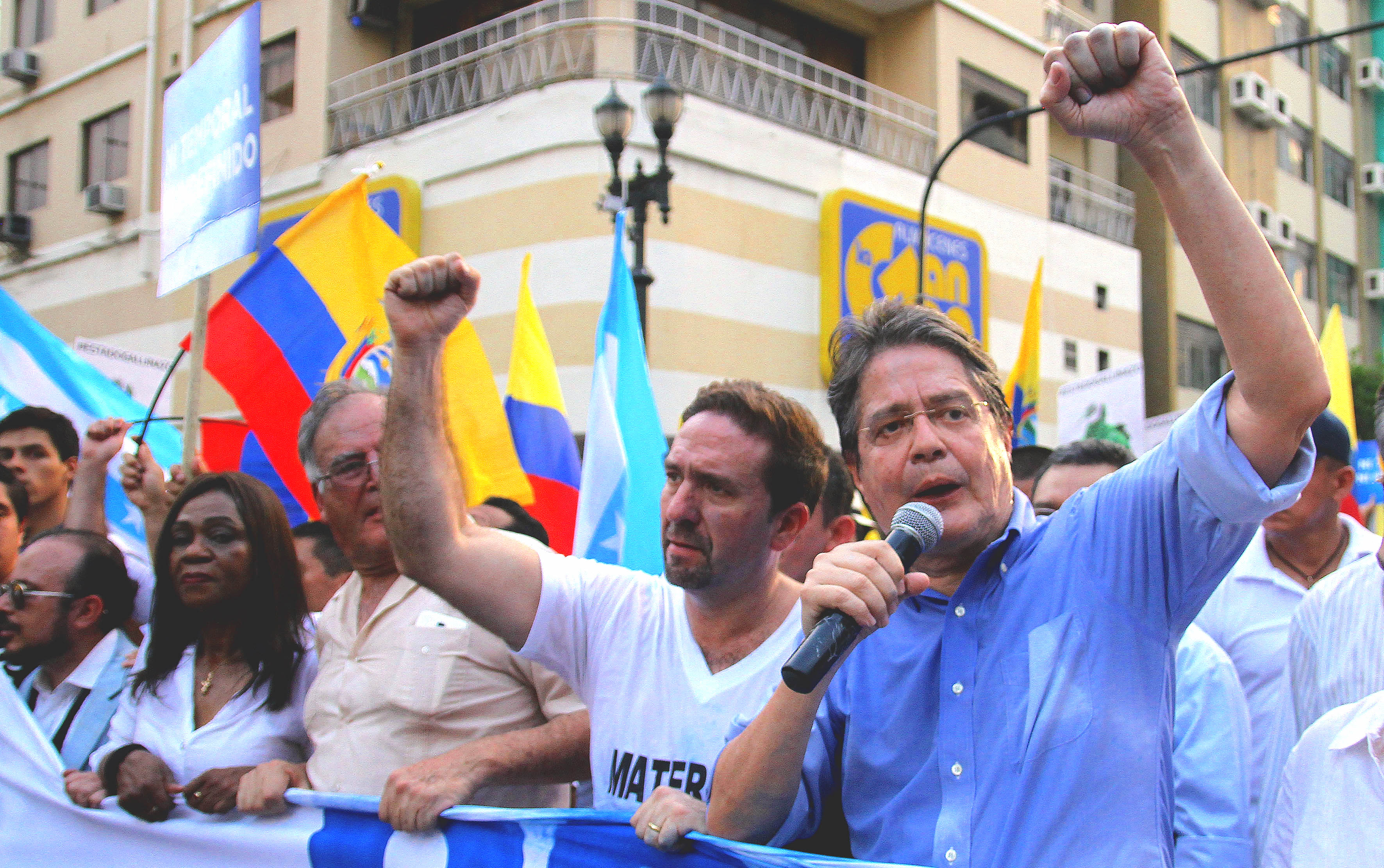 The march organized by the banker Guillermo Lasso, toured the main avenue of Guayaquil.